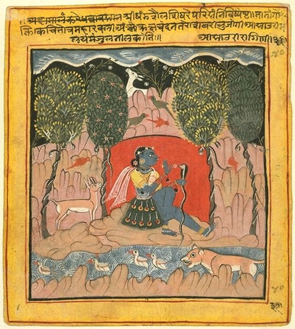 Asavari Ragini, Ragamala, 1610. (Digitally enhanced using Picasa) A Lady charms snakes in a rocky landscape. Gouache on paper. Chawand, Rajasthan.